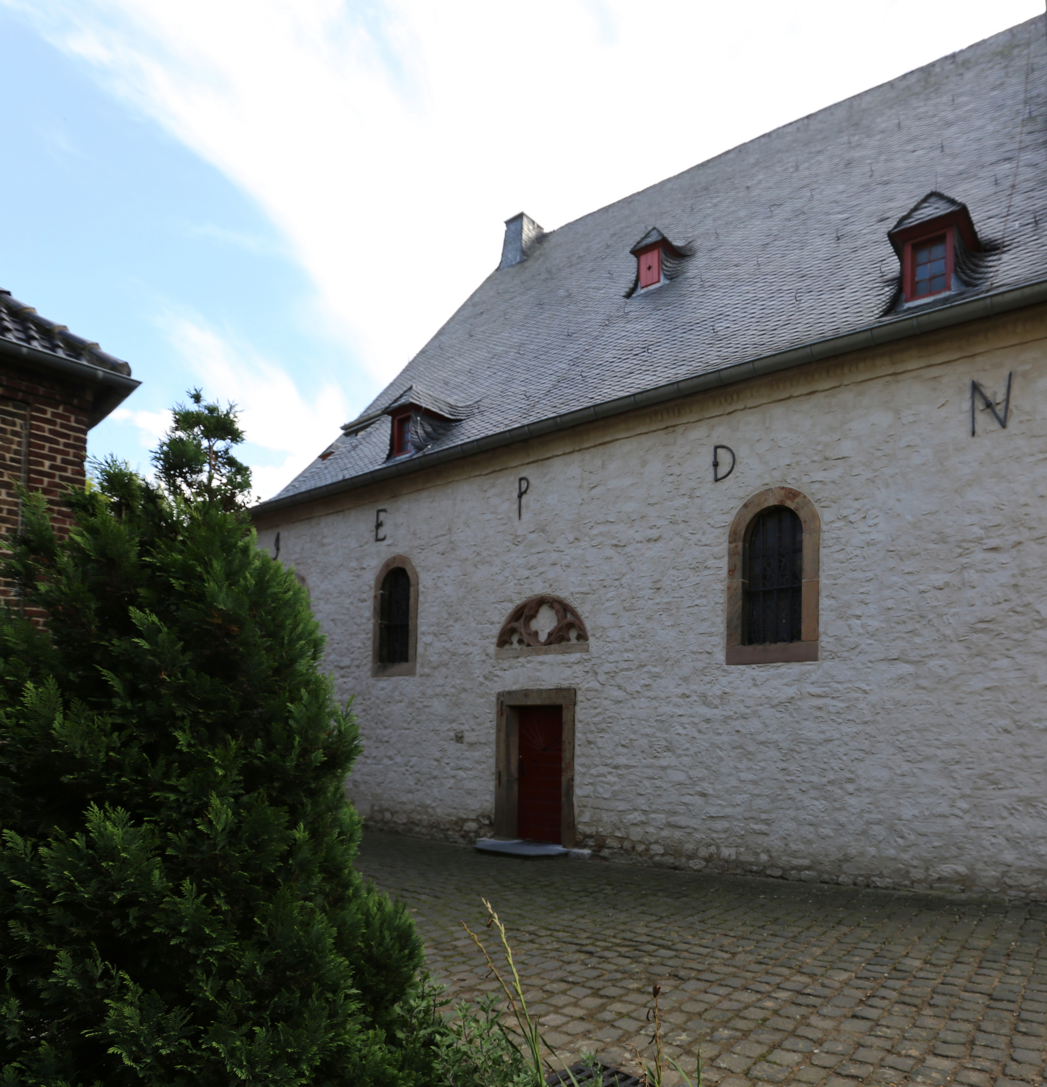 Medieval church St. Viktor, Hochkirchen, a quarter of Nörvenich, Germany